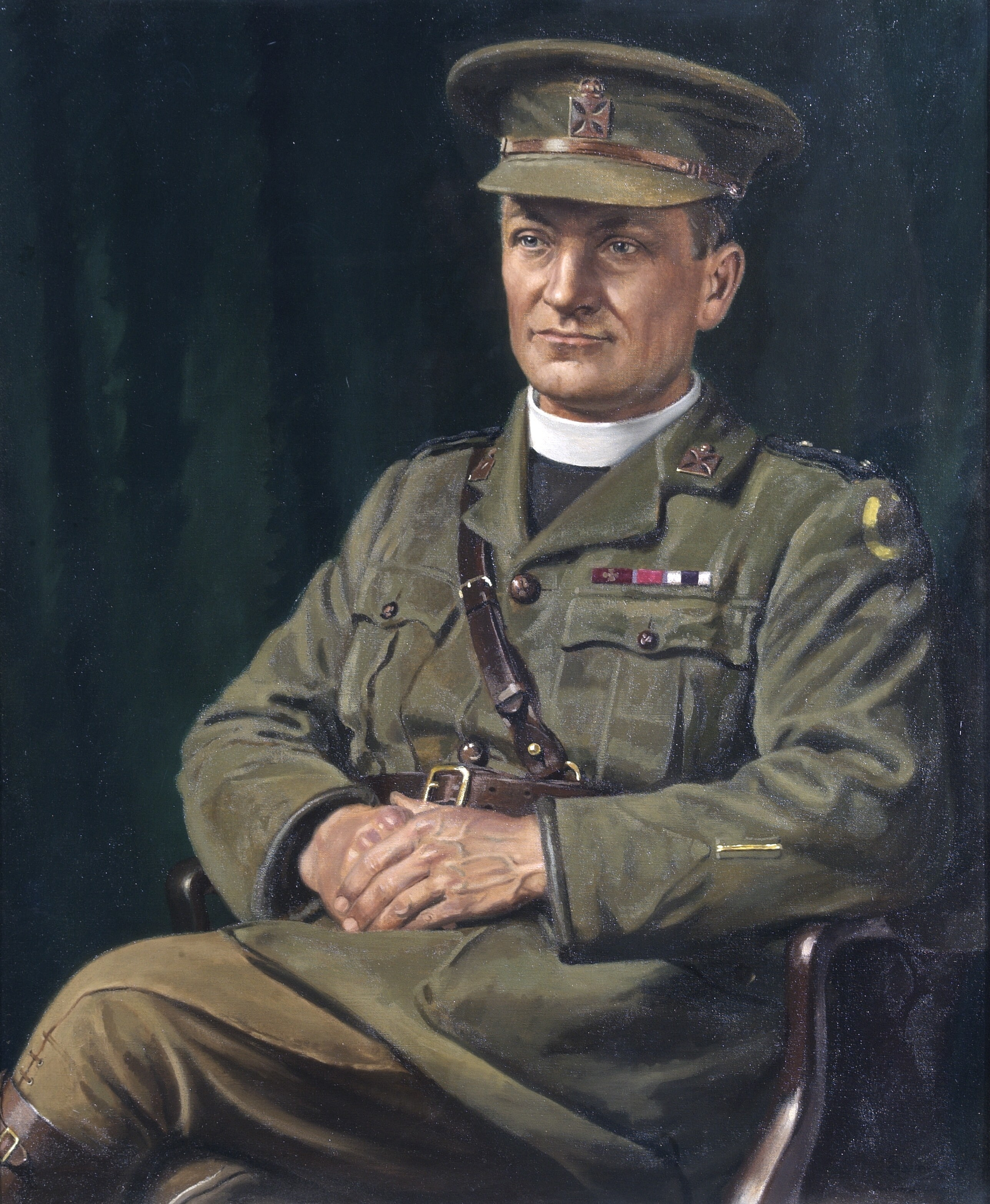 The Late Rev T B Hardy, Vc, Dso, Mc image: A three quarter length portrait of Hardy, who wears military uniform over his vicar's collar and is seated.